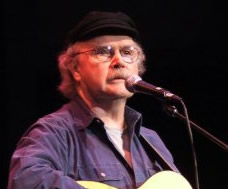 I took this picture of Tom Paxton at a concert in Oklahoma City on 2/9/07.